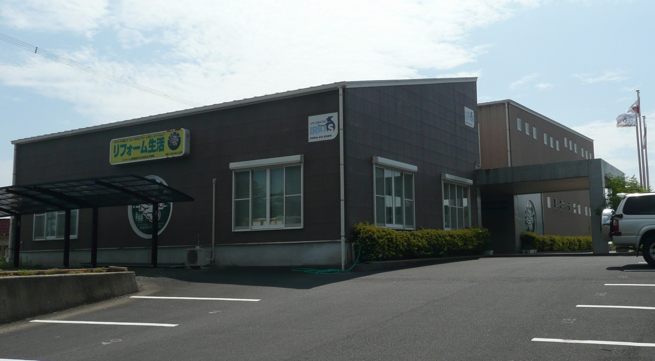 Maruei co., ltd. Main Office (Kanoya, Kagoshima, Japan